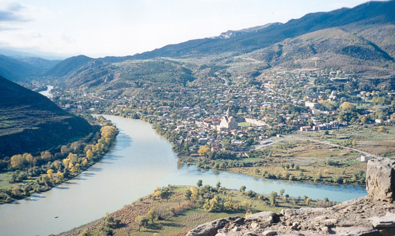 Confluence of the Aragvi and Kura (Mtkvari) rivers, Mtskheta, Georgia.